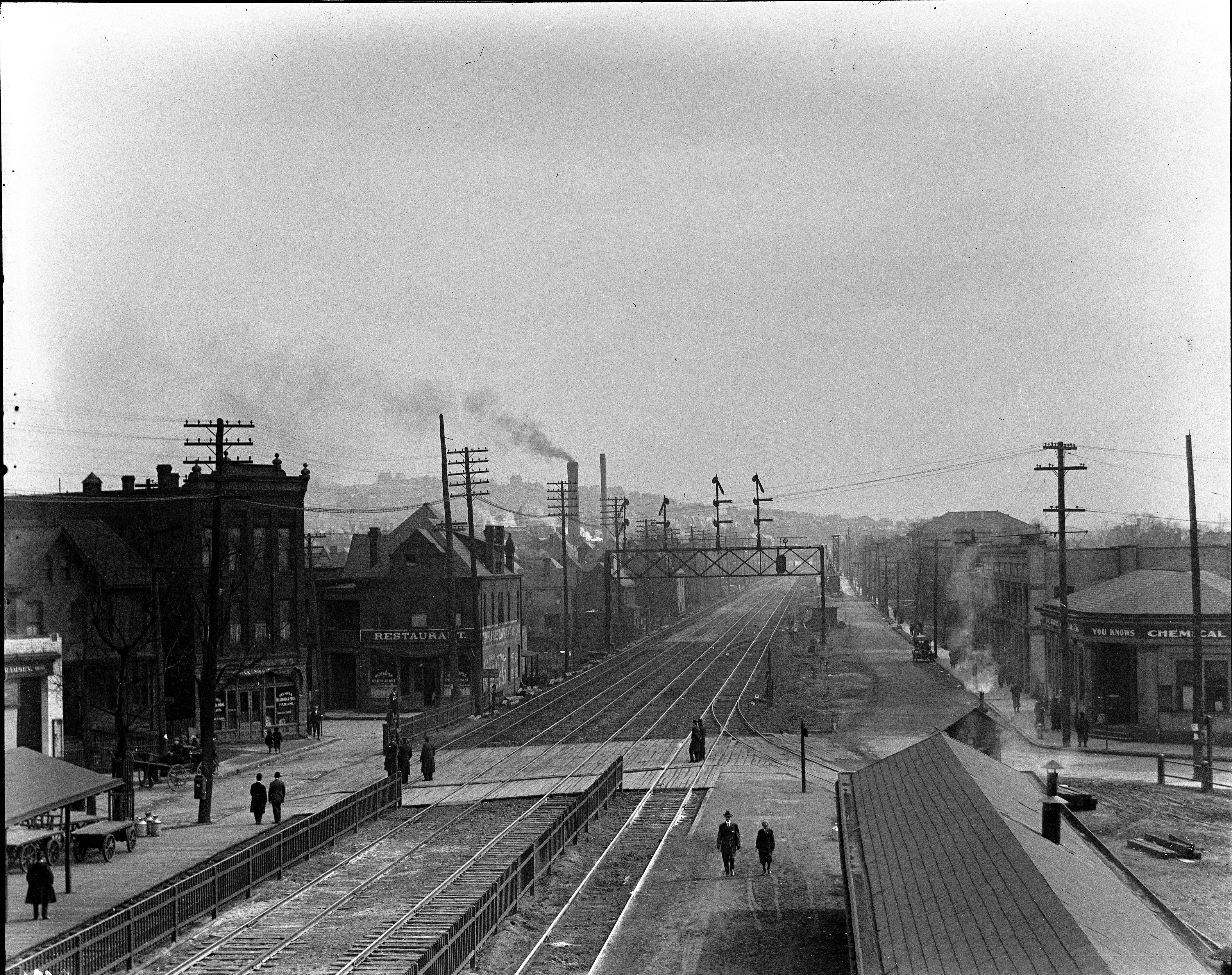 The envelope says: Rebecca Avenue crossing before Penn. RR tracks were raised, March 22, 1913.